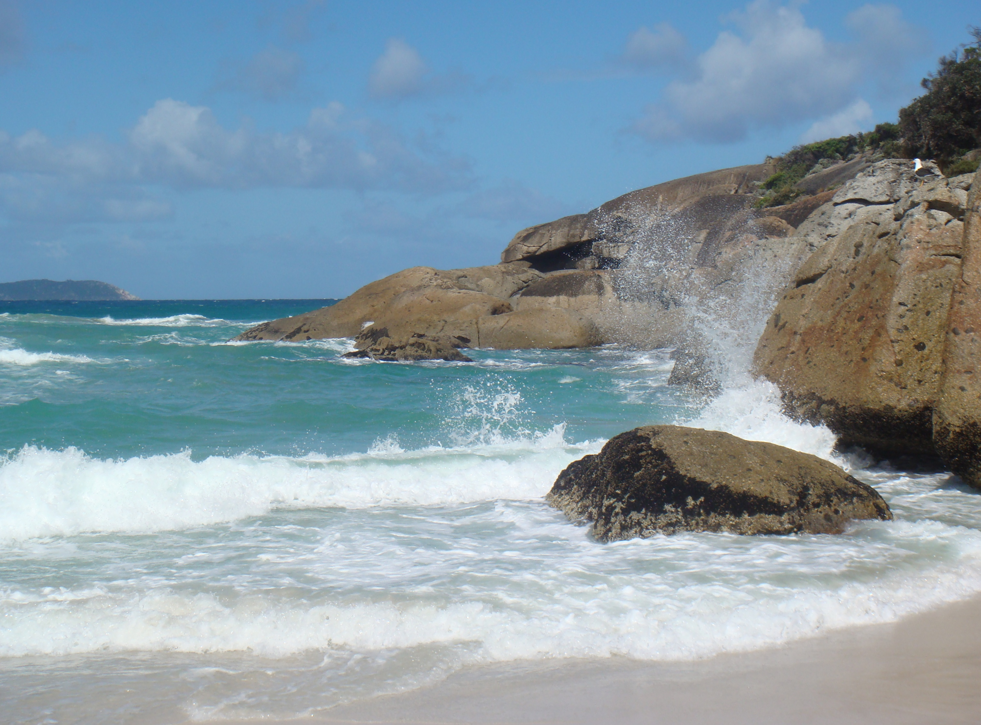 Rocky hillside at Squeaky Beach in Wilsons Promontory National Park, Victoria.